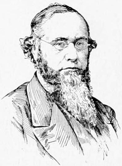 Portrait drawing of U.S. Secretary of War Edwin M. Stanton